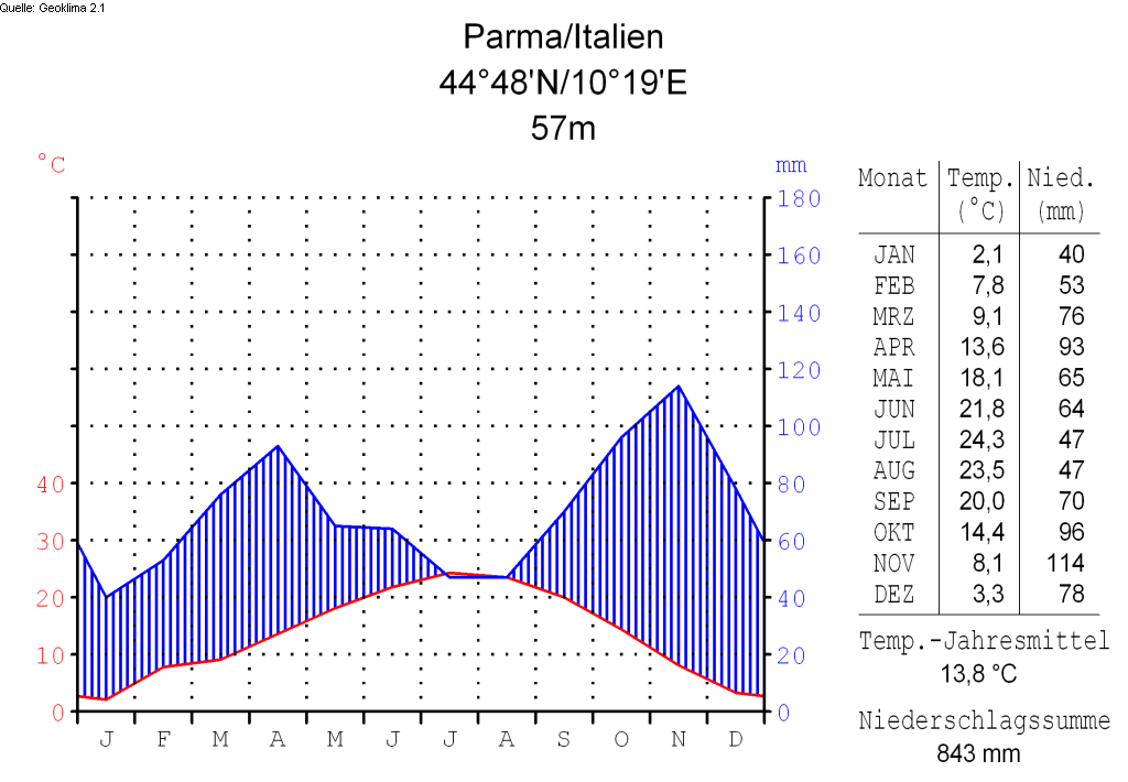 climate chart in the format by Walter and Lieth, metric, °Celsisus and millimeters, made with Geoklima 2.1